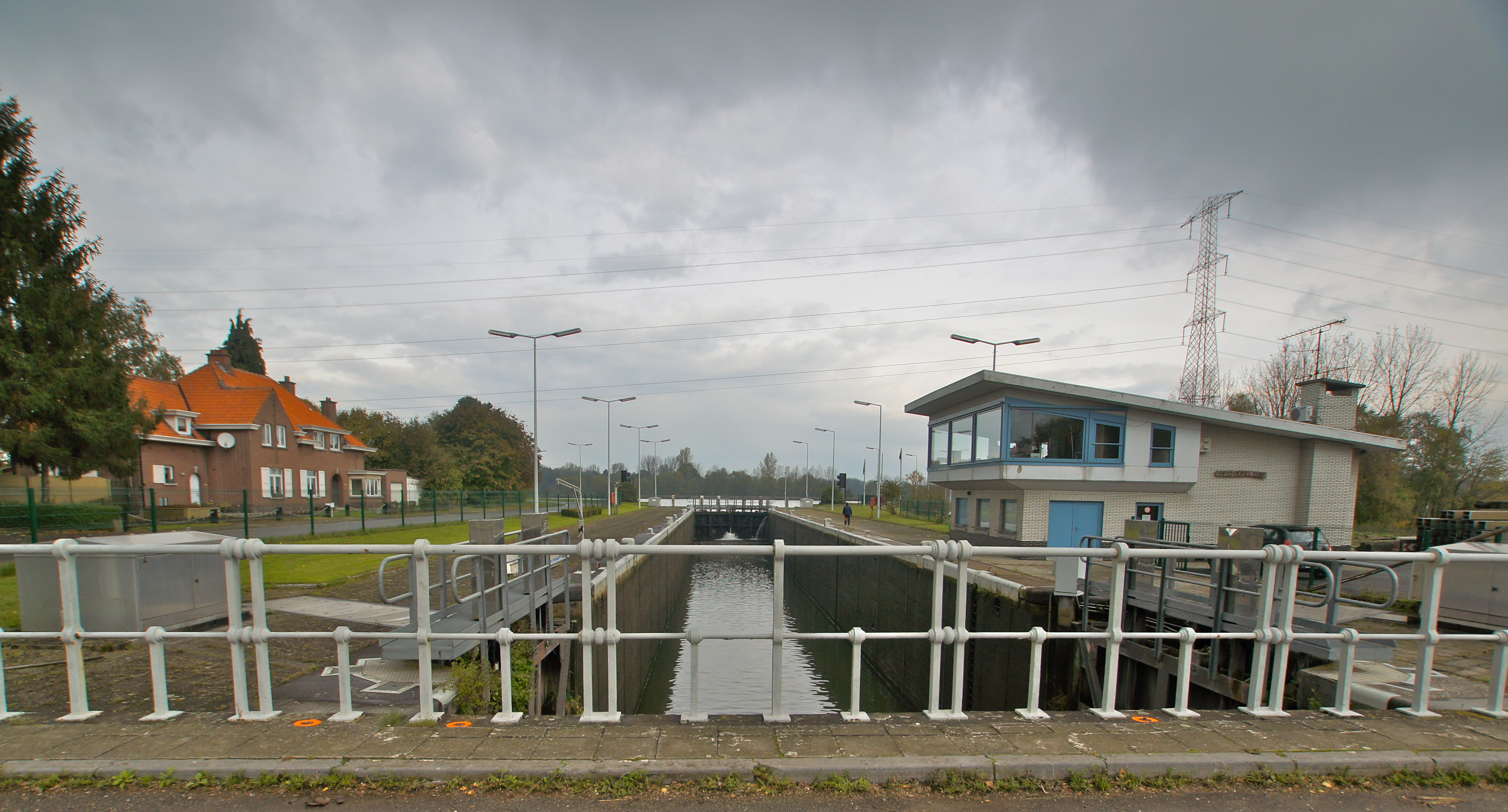 Zandhoven (Viersel), Belgium: The Viersel canal lock on the Netekanaal